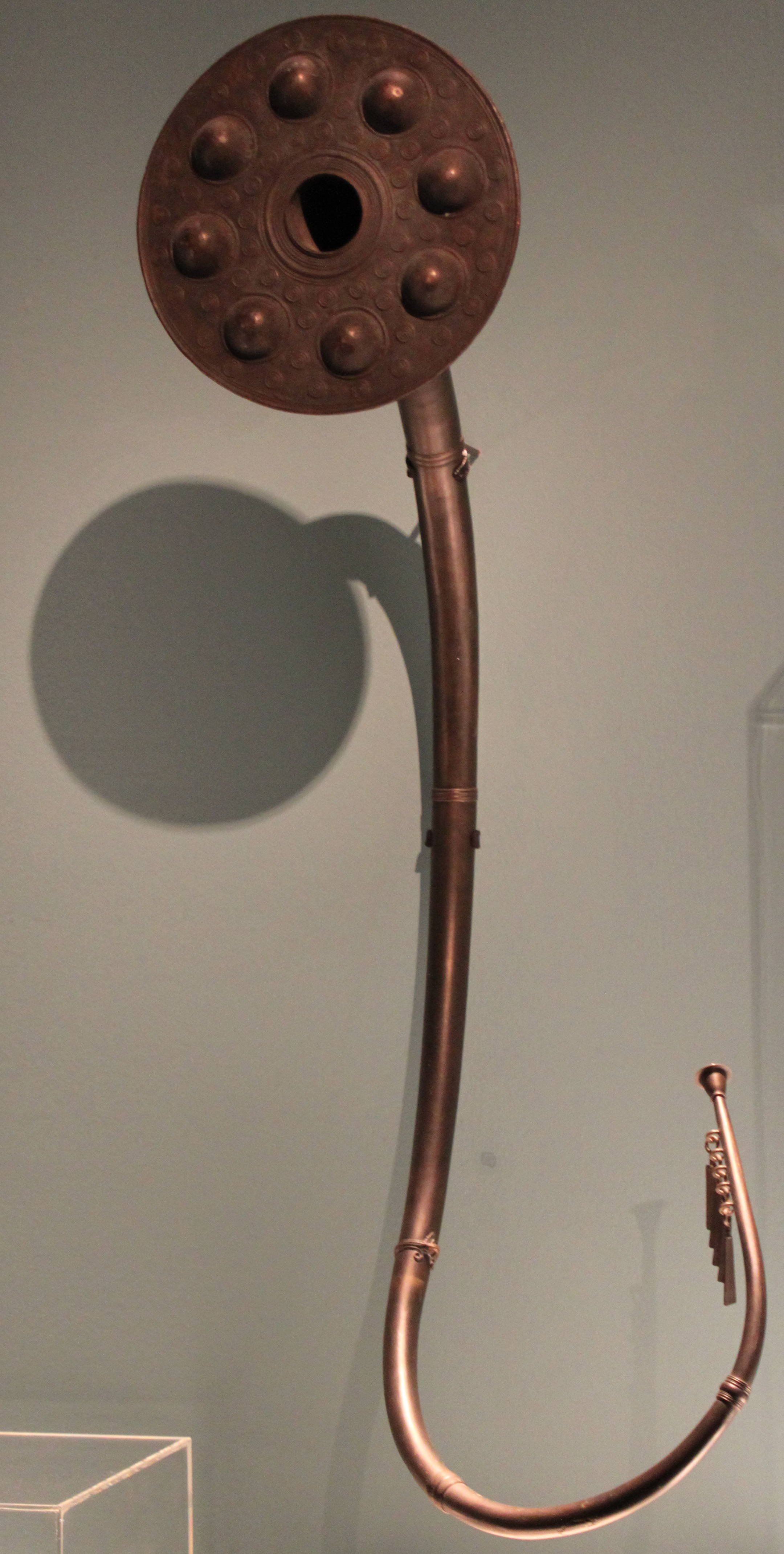 Danish Bronze-Age Lur; 13th-5th Century B.C.